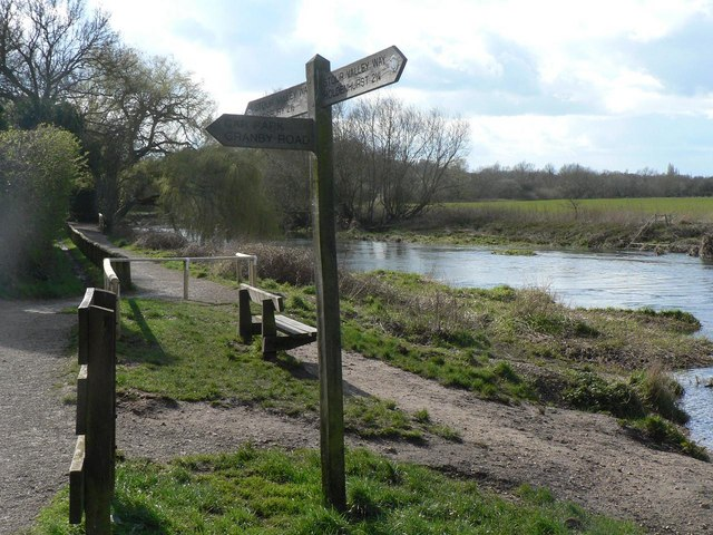 Muscliff: Stour Valley Way This signpost guides the way along the Stour Valley Way, towards Redhill and Dudsbury ahead, and towards Throop mill, behind the camera.